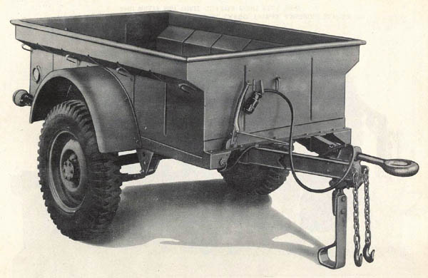 Jeep ¼-ton trailer, 2-wheel, cargo, 1942-43 (Bantam T-3 or Willys MBT) SNL G-529, right front